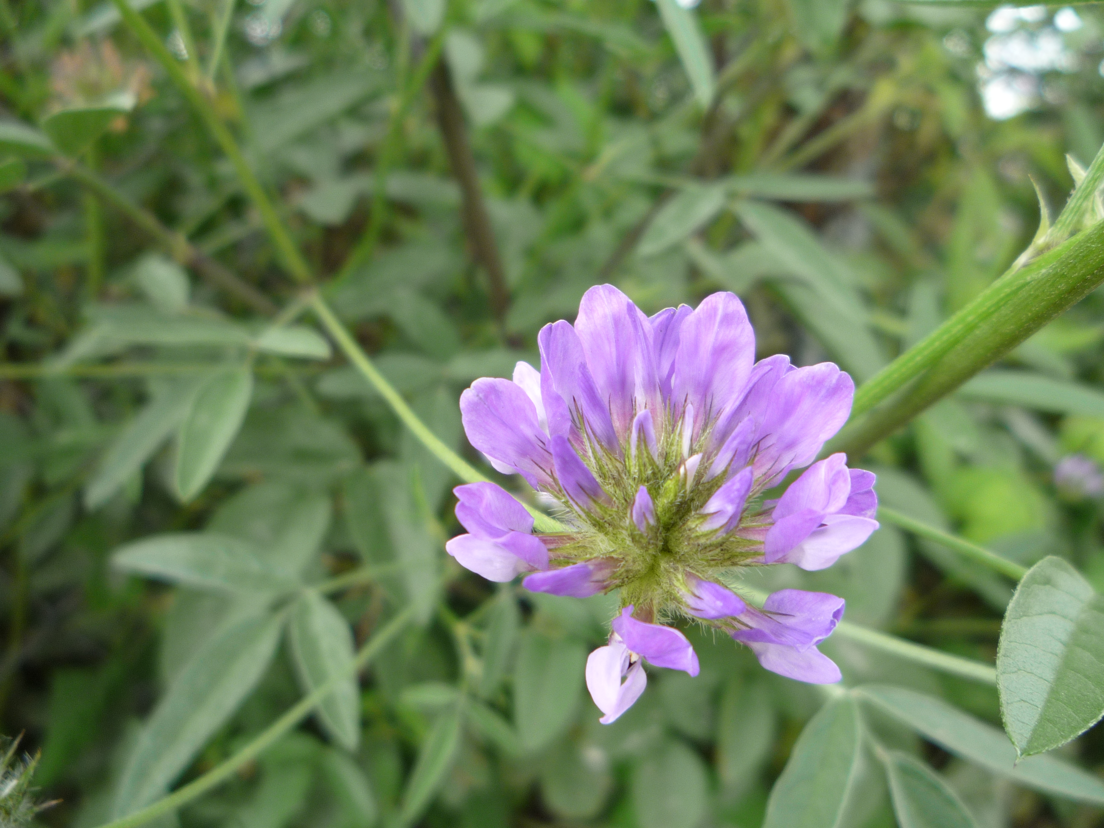 Light purple flower in Sant Cugat del Vallès, Spain.